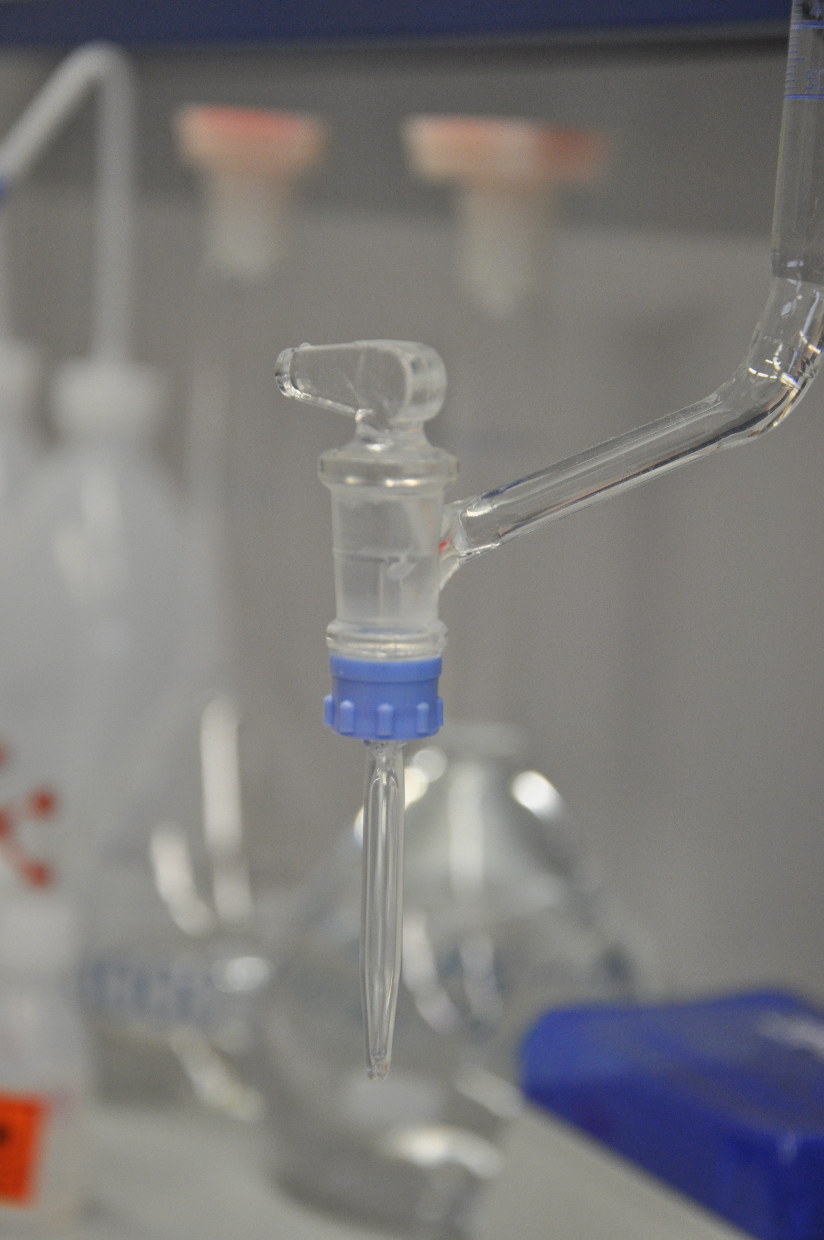 tap of a burette